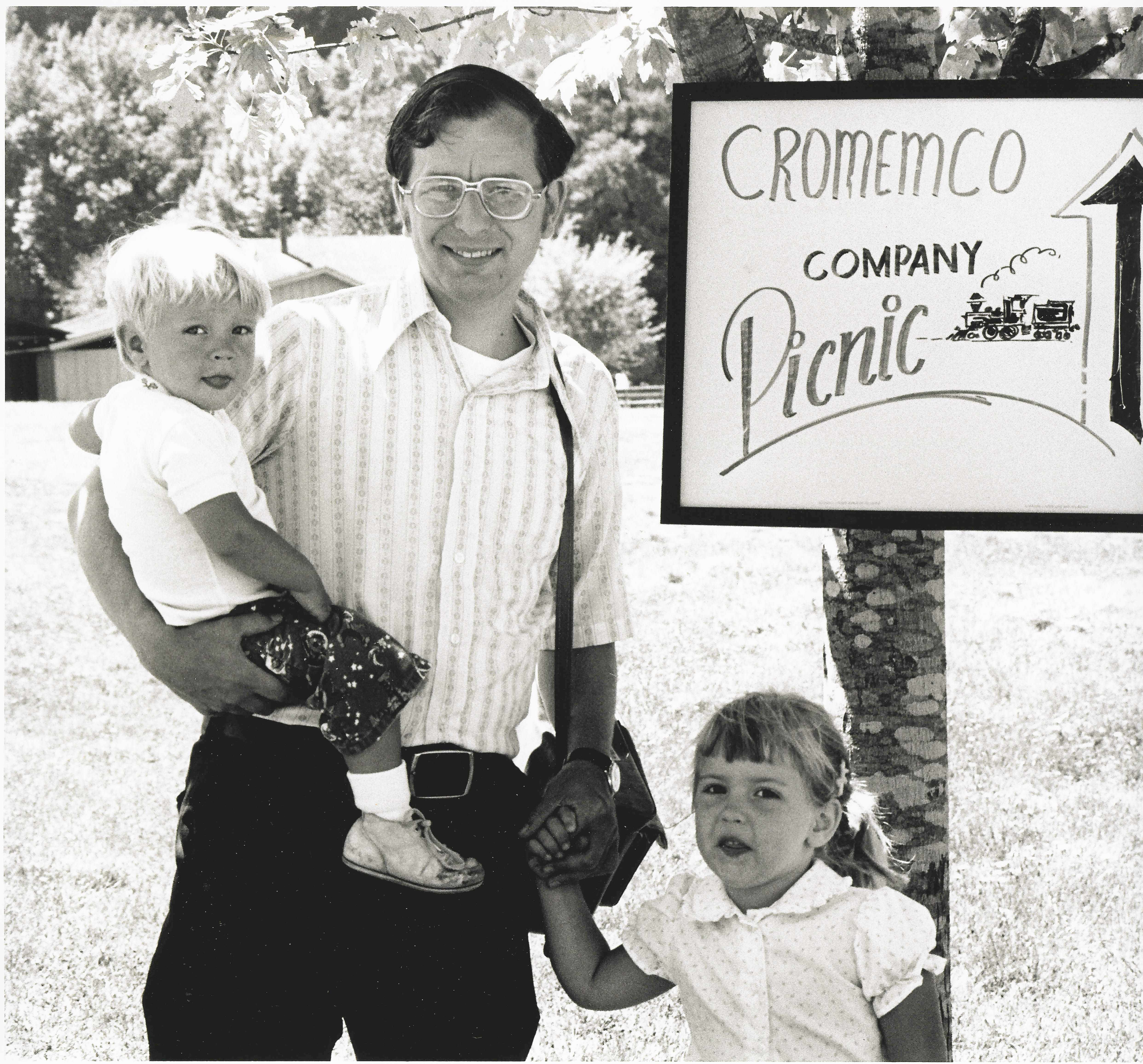 Harry Garland with his children at Cromemco company picnic in 1979.